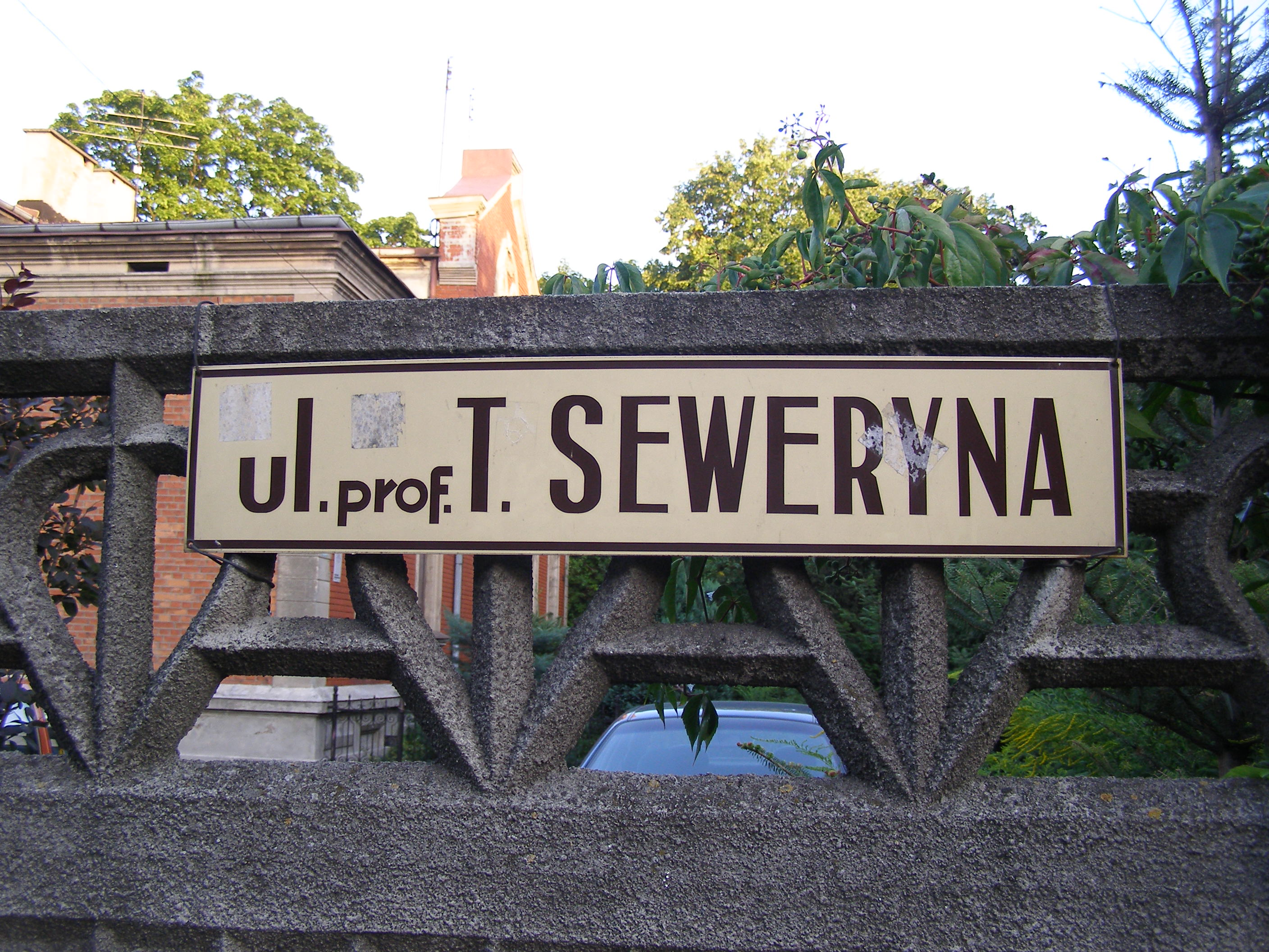 Tadeusz Seweryn Street in Tomaszów Mazowiecki.